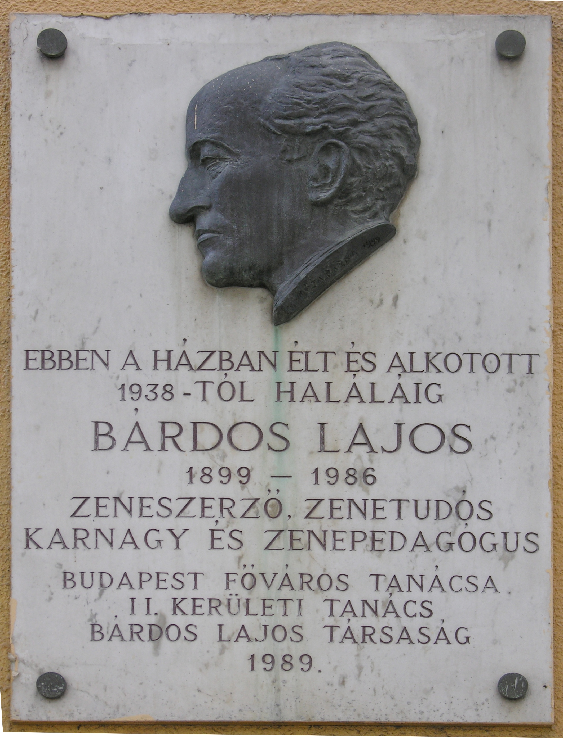 Commemorative plaque of Lajos Bárdos (Budapest District II, Margit Boulevard No 64/b)